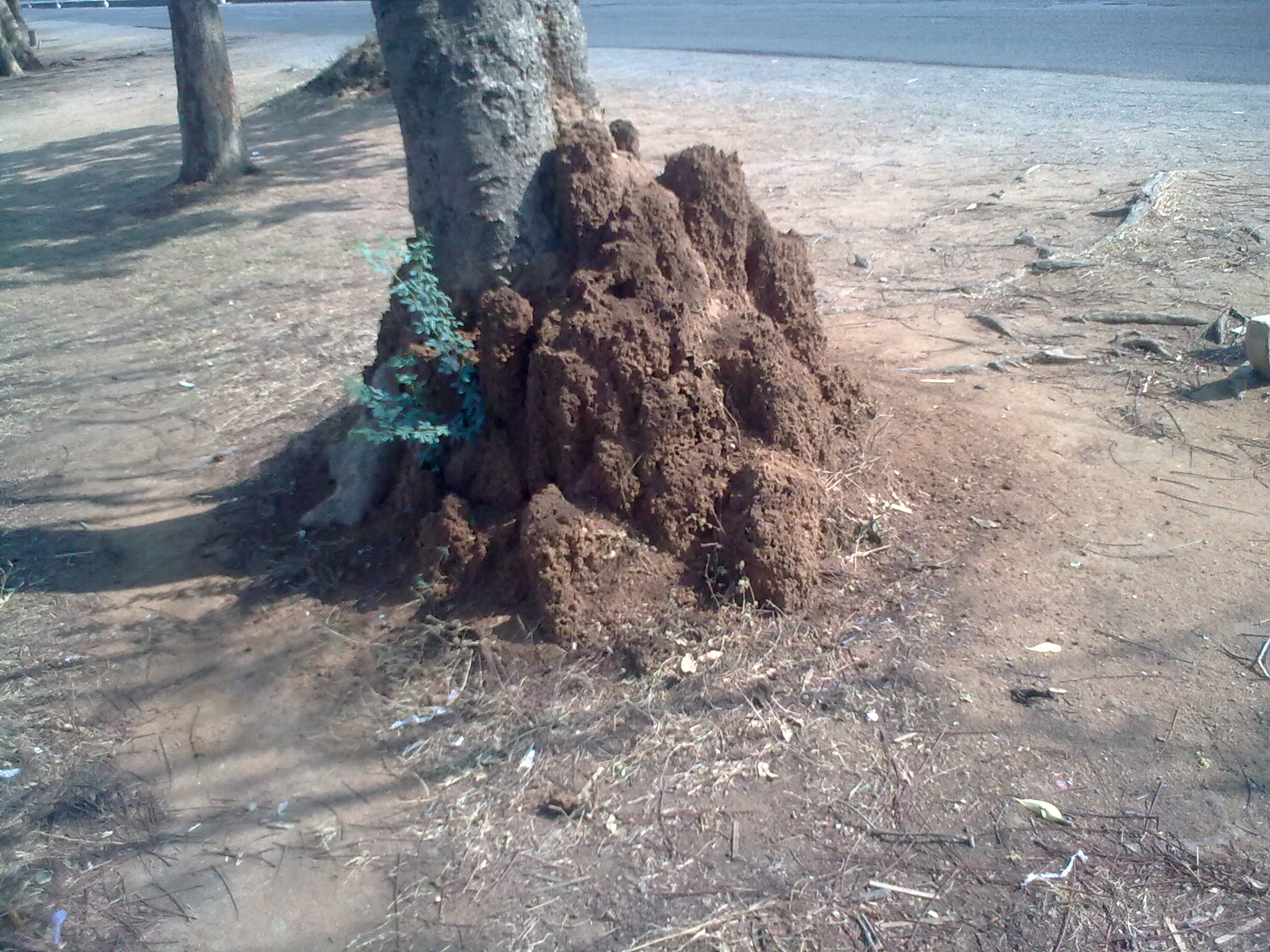 Termite mound photographed by the uploader